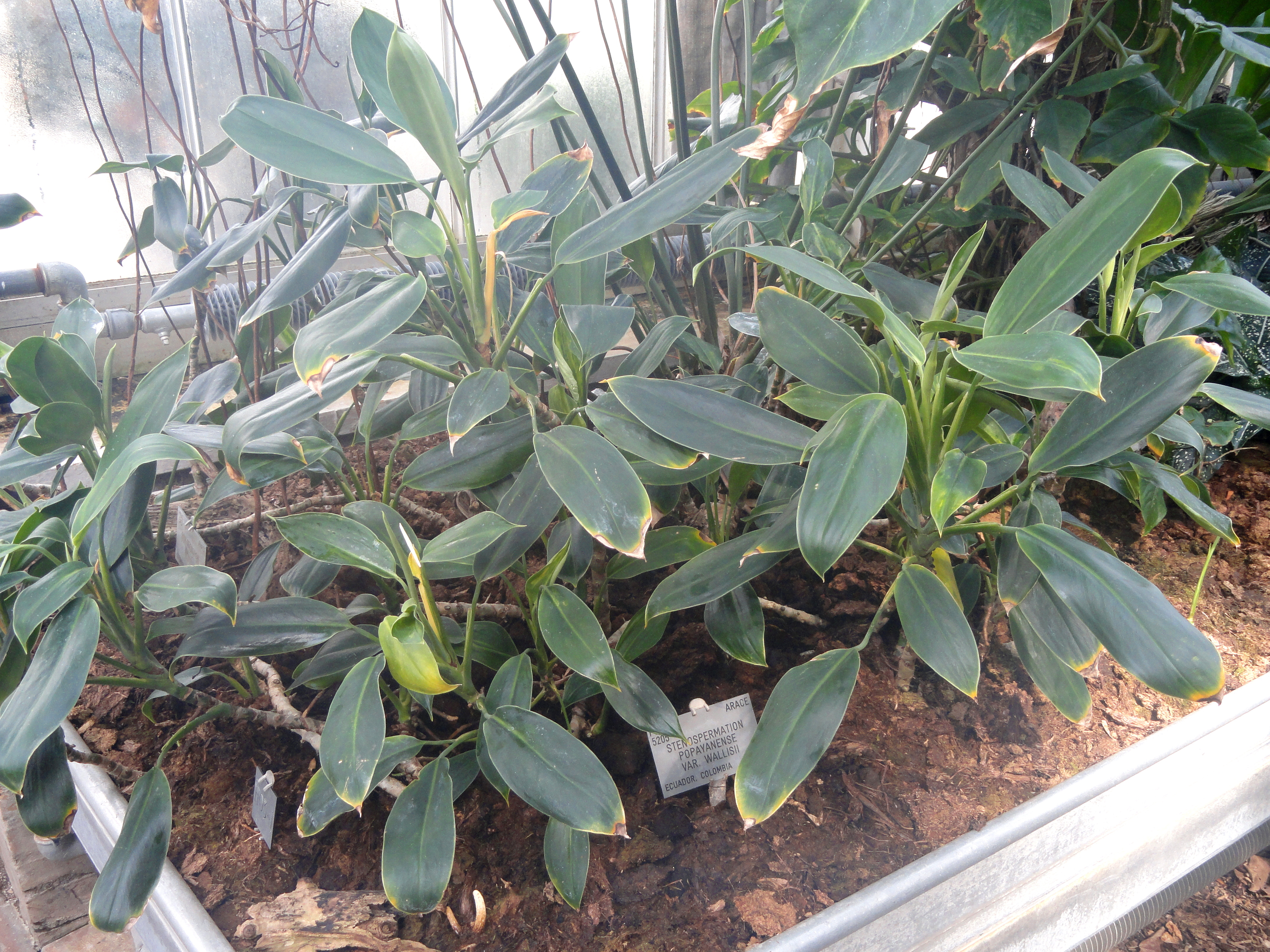 Botanical specimen in the University of Copenhagen Botanical Garden, Copenhagen, Denmark.